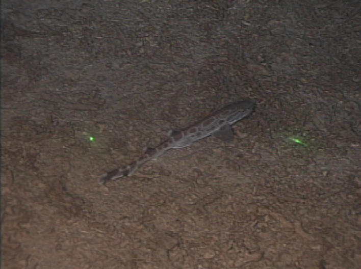 Roughtail catshark (Galeus arae) at the foot of a Lophelia reef pinnacle off Cape Canaveral, Florida